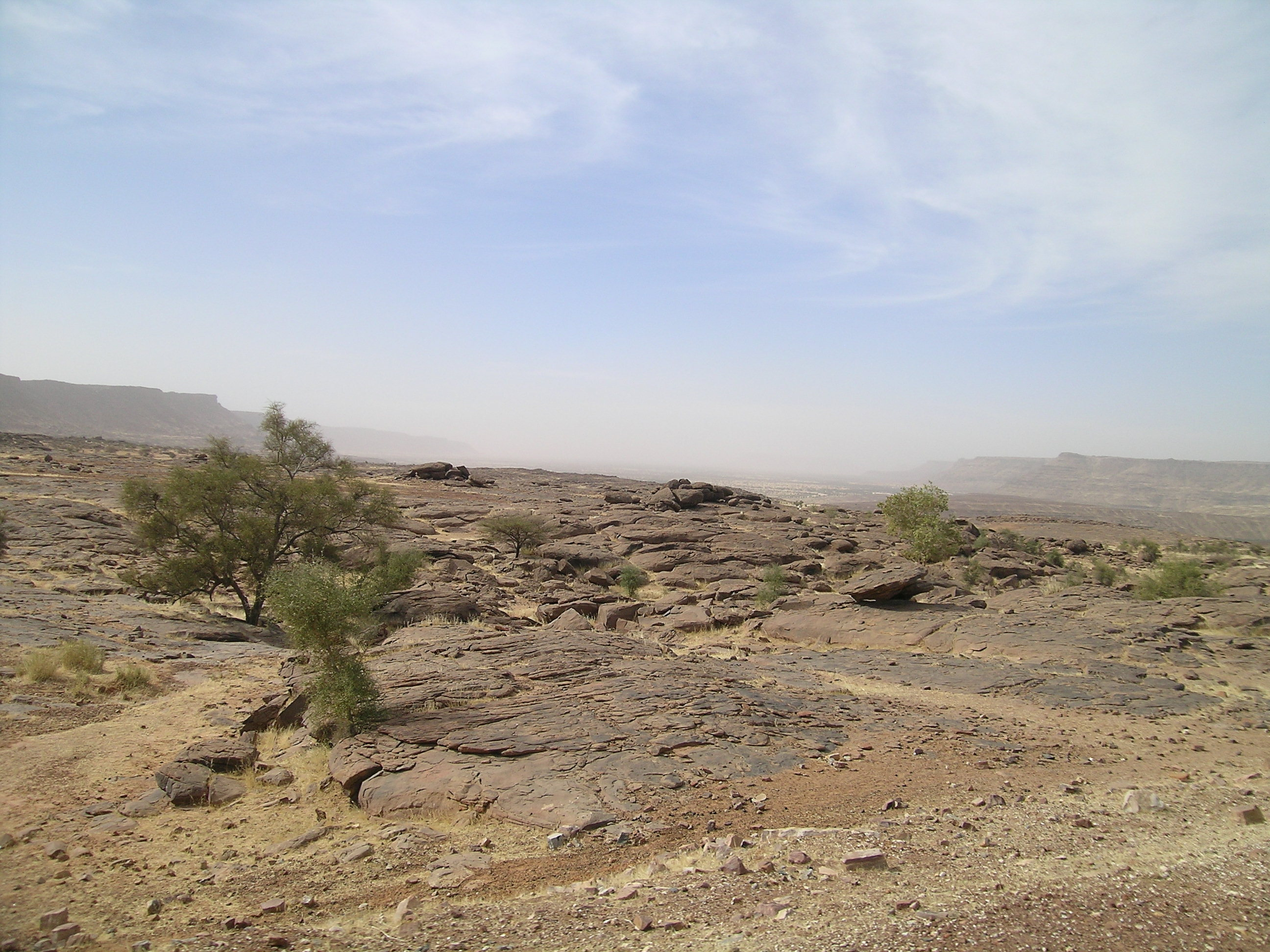 Mountain pass in Hodh El Gharbi region (Mauritania)